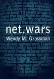 The first-edition front cover of the book Net.wars.